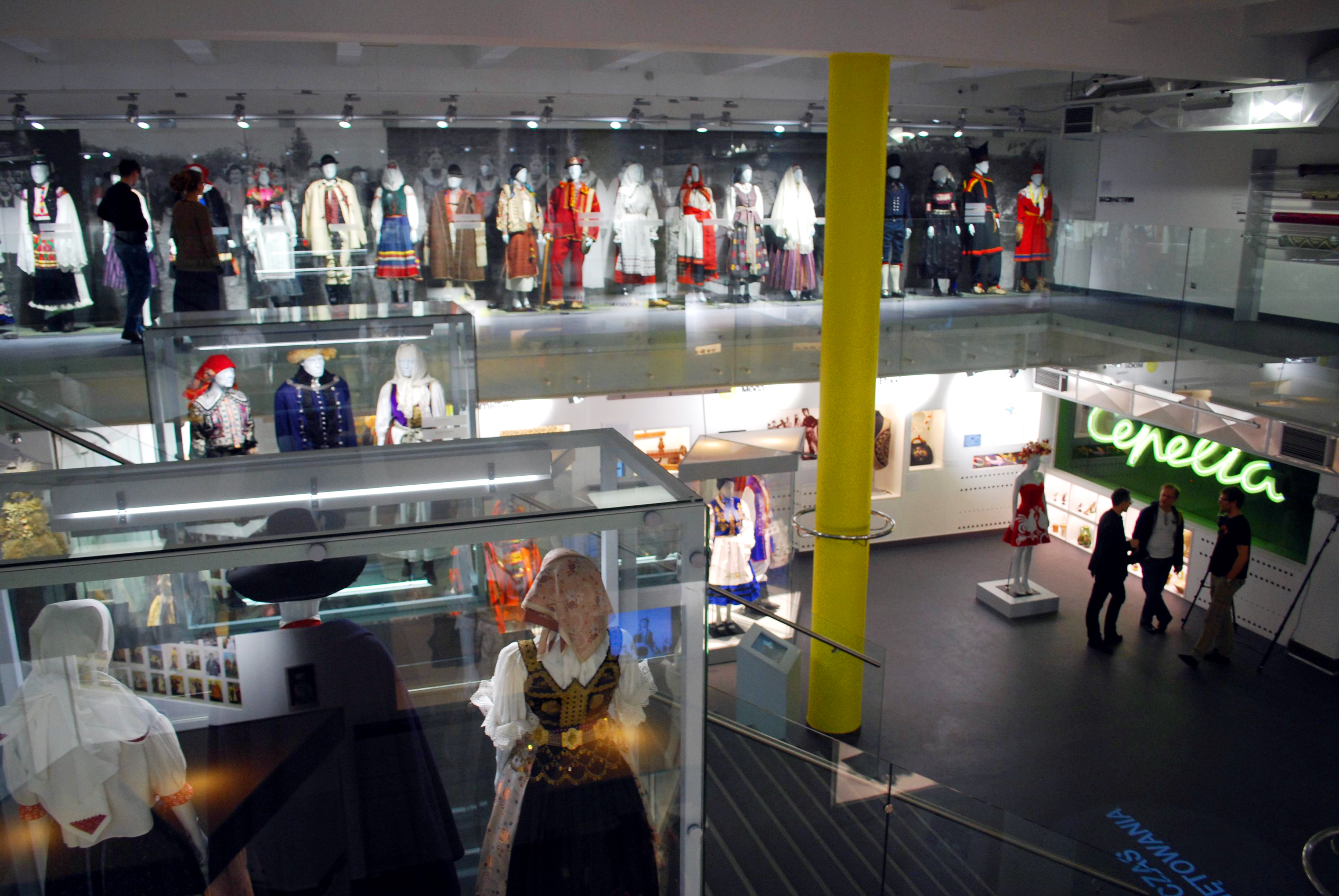 Folk costume and objects exhibition at the National Museum of Ethnography in Warsaw, february 2015